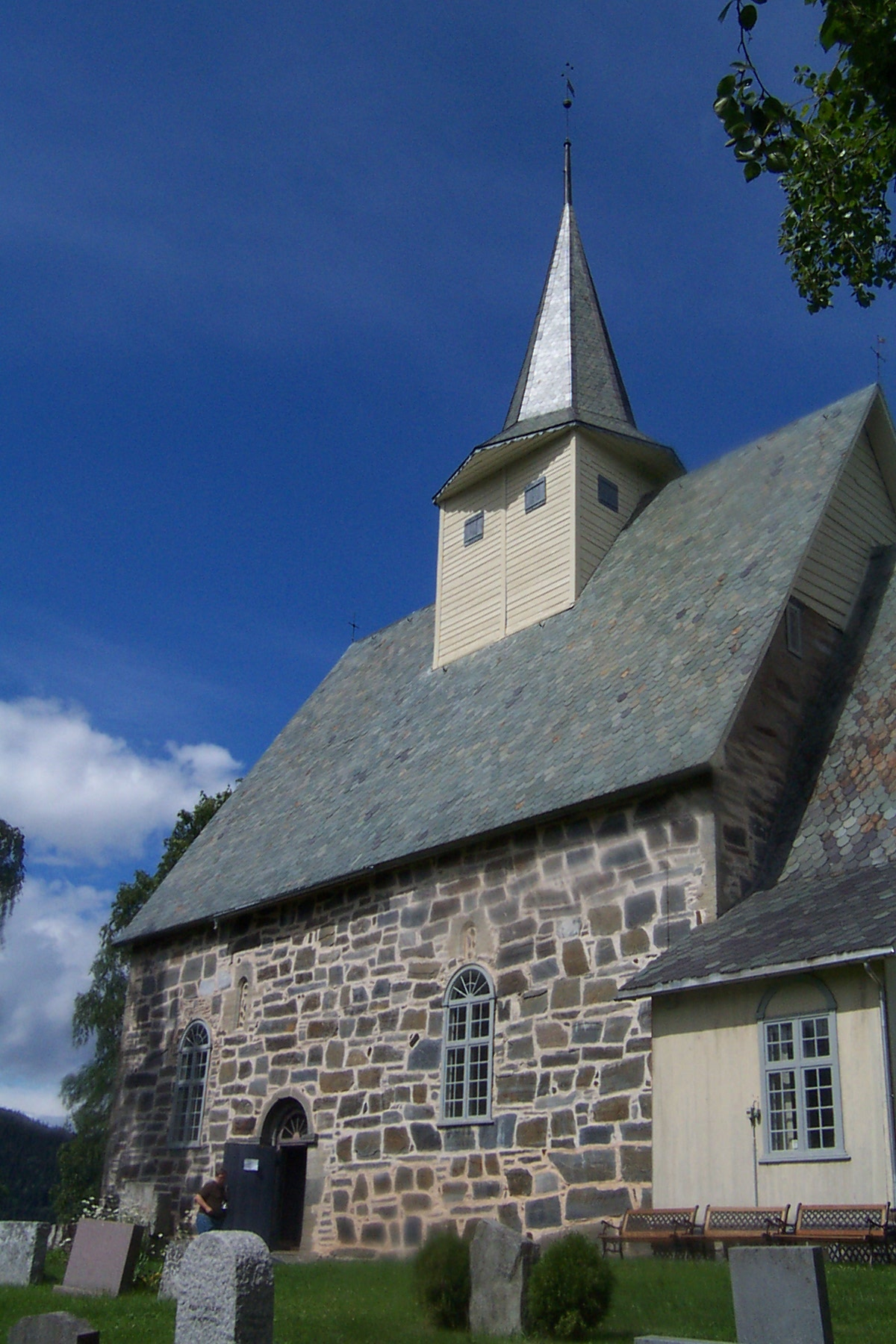 Slidredomen - The Stone Church in Slidre. This is an excellent example of a viking era church. It was built by early viking Christians about 1200.